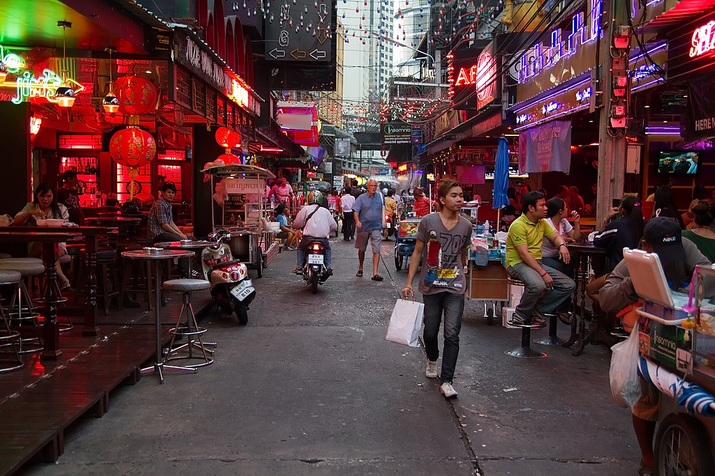 Soi Cowboy, Sukhumvit road, Bangkok, Thailand